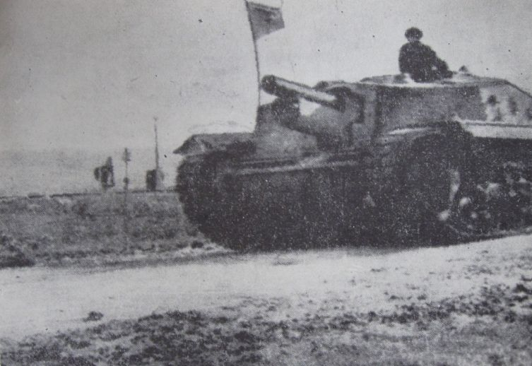 A Zriny II captured assault gun used by Romanian troops near Cluj.